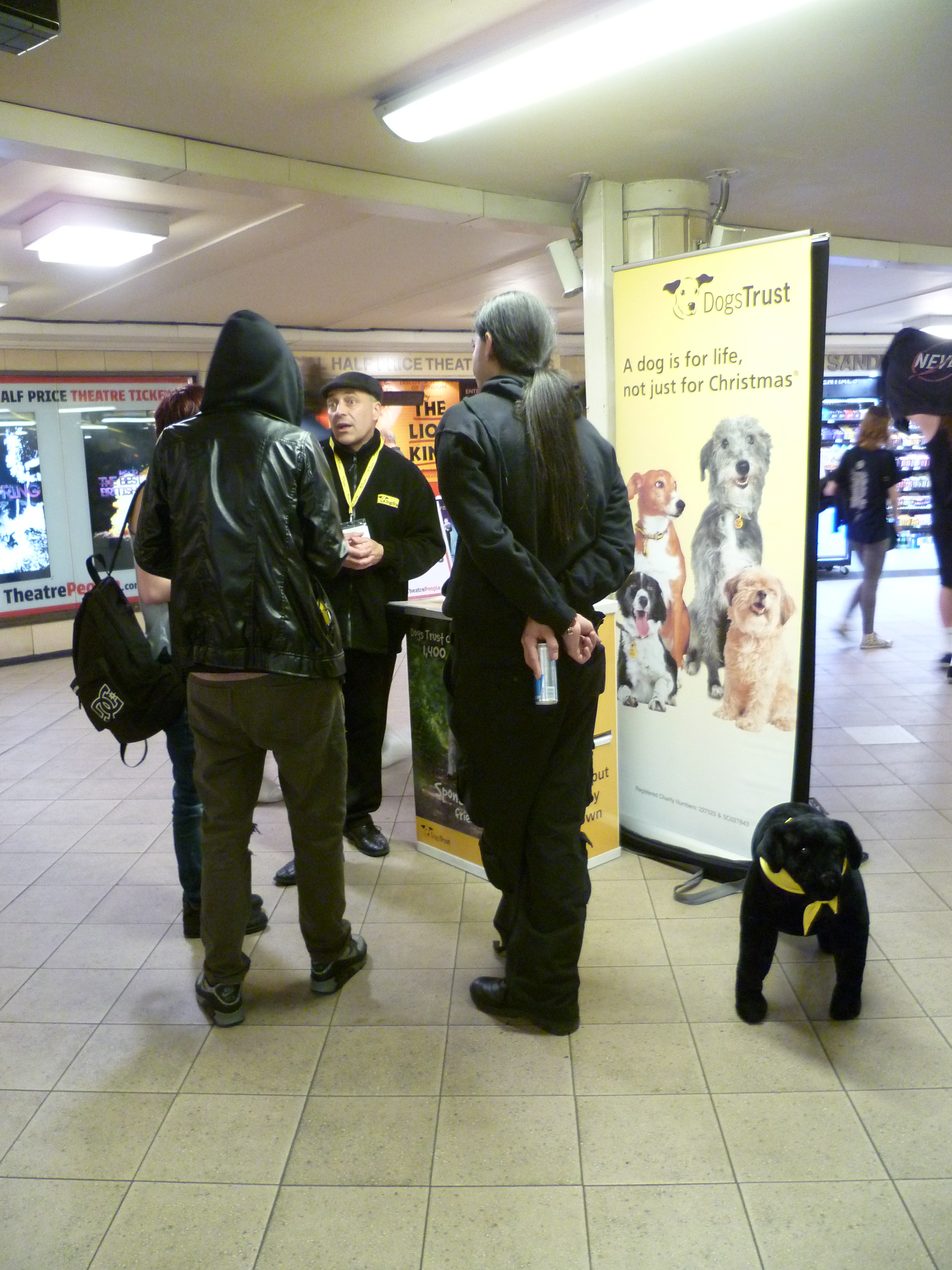 London